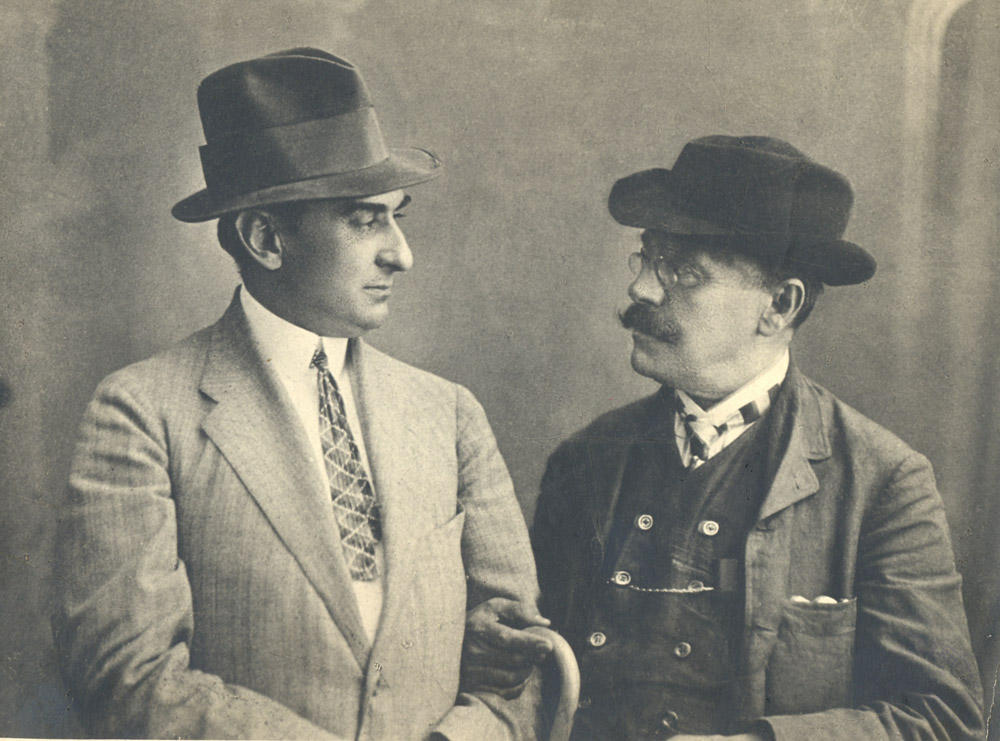 Alexandru Davila and Ion Luca Caragiale. Part of a set of photographs taken at a Davila Troupe session, Bucharest, 1909. Caragiale, who was living in Berlin, made occasional returns to Romania - this was one such trip. See Momente, schiţe, amintiri II (Paulian edition), Scrisul Românesc, Craiova [n. y.].